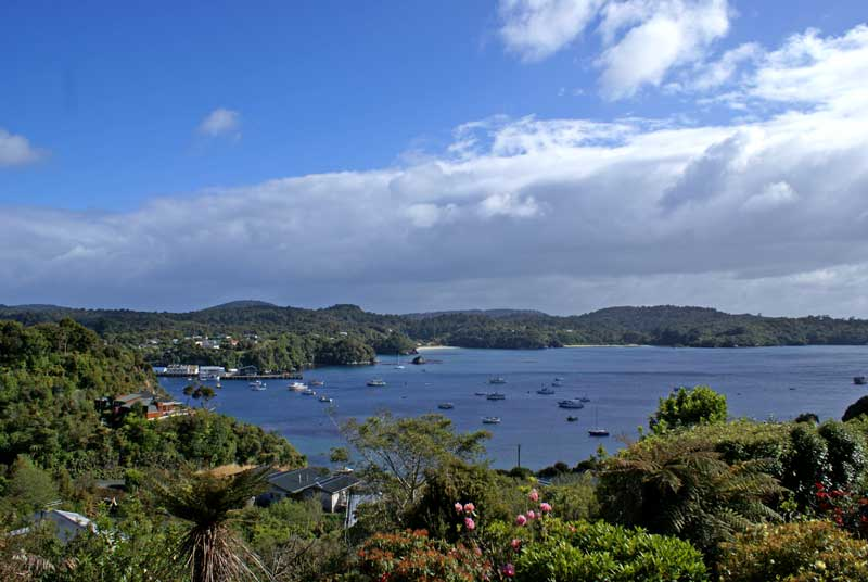 Overlooking the town of Oban and Half Moon Bay on Stewart Island, New Zealand. Taken November 11, 2006, by Jacob LeBeau. Camera Sony Alpha 100K, 18mm lens.